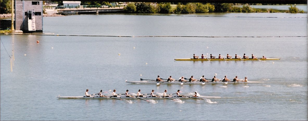 Finish line at the Royal Canadian Henley Regatta. Taken by me at the races in 1996.